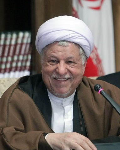 Akbar Hashemi Rafsanjani chairs Expediency Discernment Council